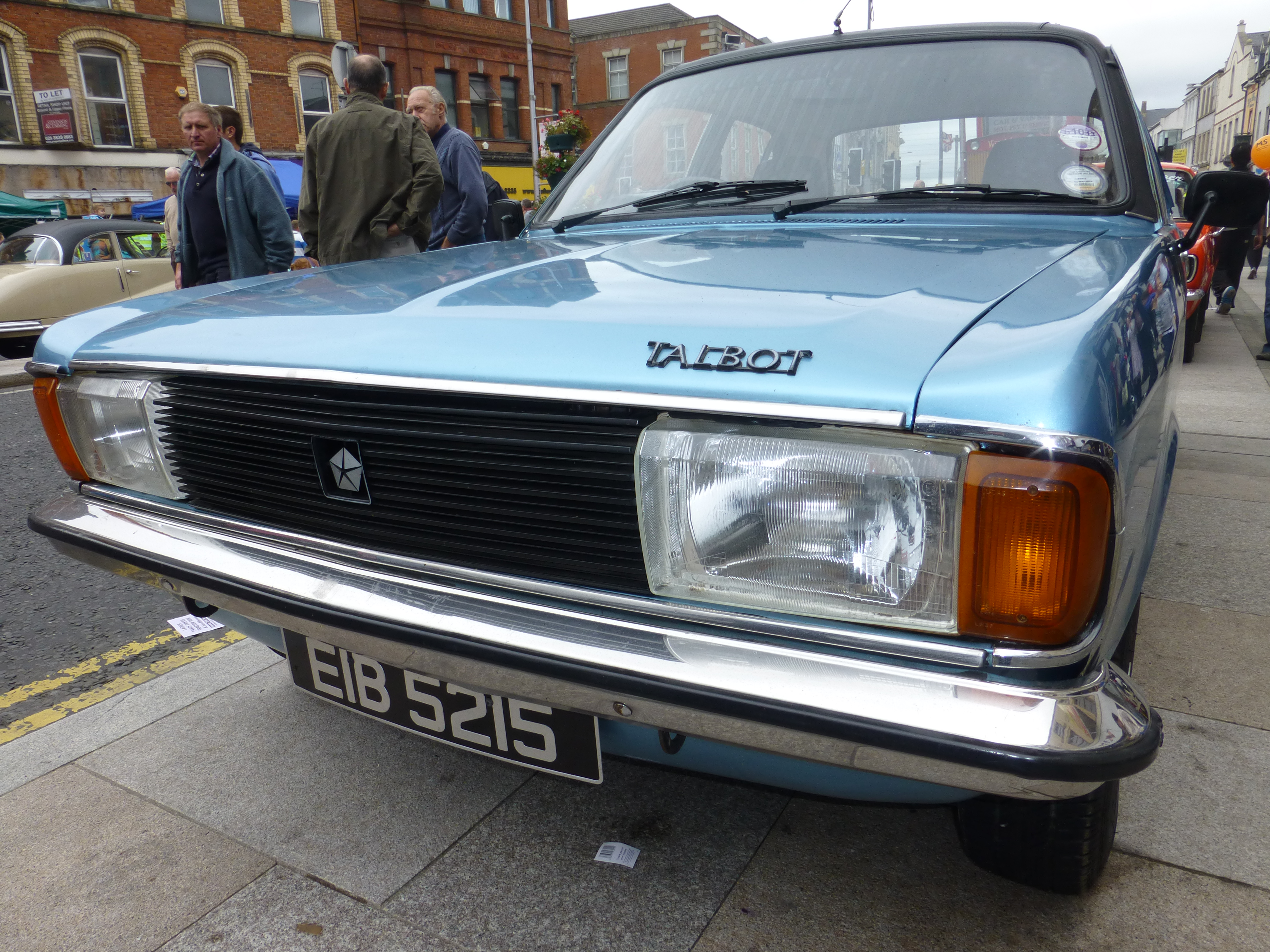 Talbot Avenger. Portadown, County Armagh, Ireland.